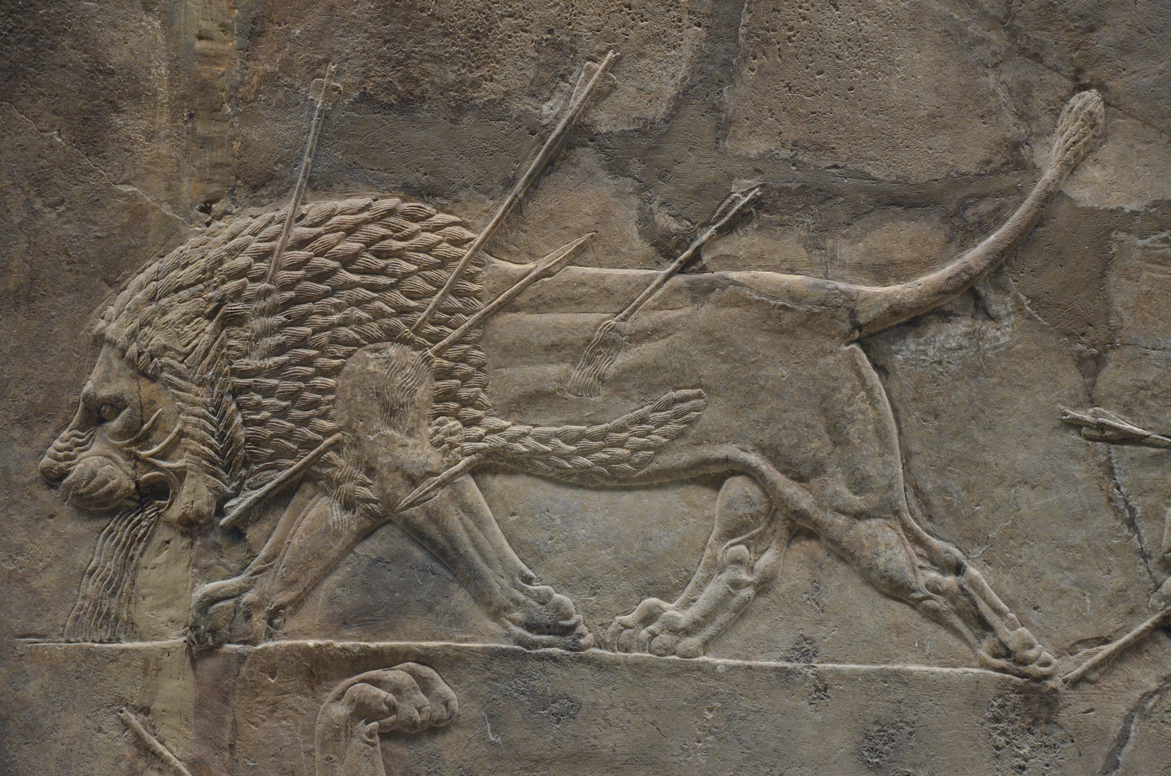 Sculpted reliefs depicting Ashurbanipal, the last great Assyrian king, hunting lions, gypsum hall relief from the North Palace of Nineveh (Irak), c. 645-635 BC, British Museum